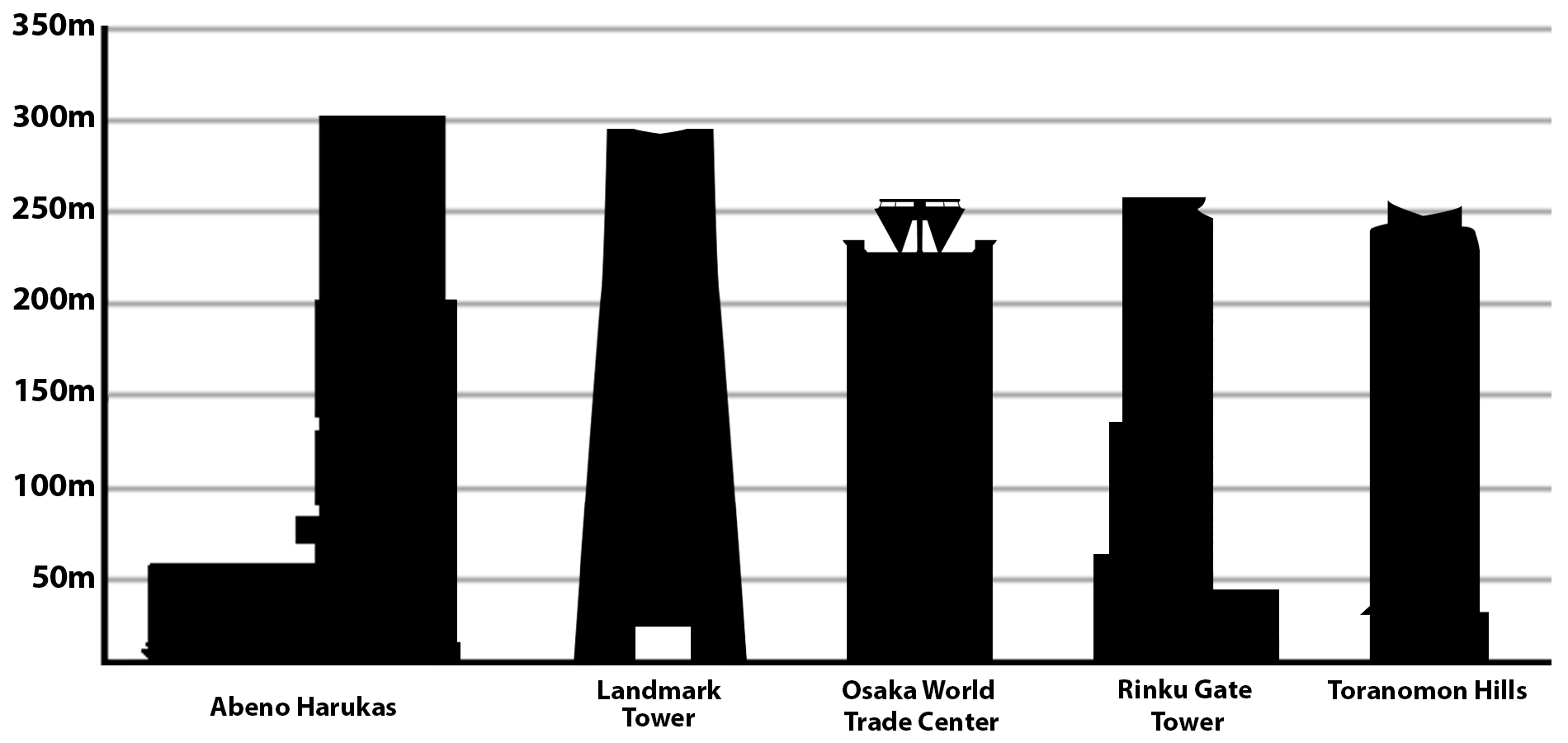 Tallest Buildings in Japan; Used data from .